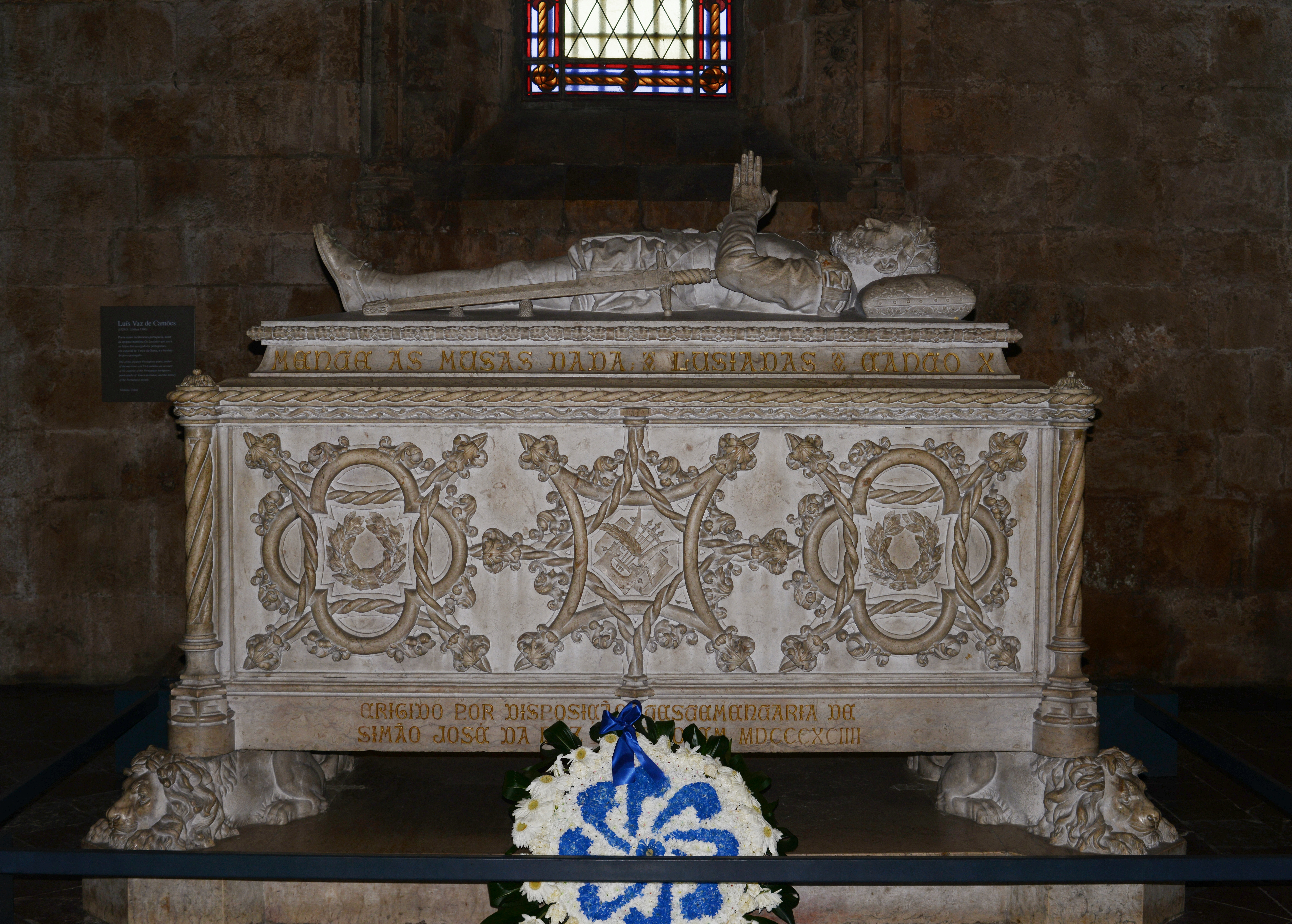 Tomb of the Portuguese poet Luís de Camões. Mosteiro dos Jerónimos, Lisboa.